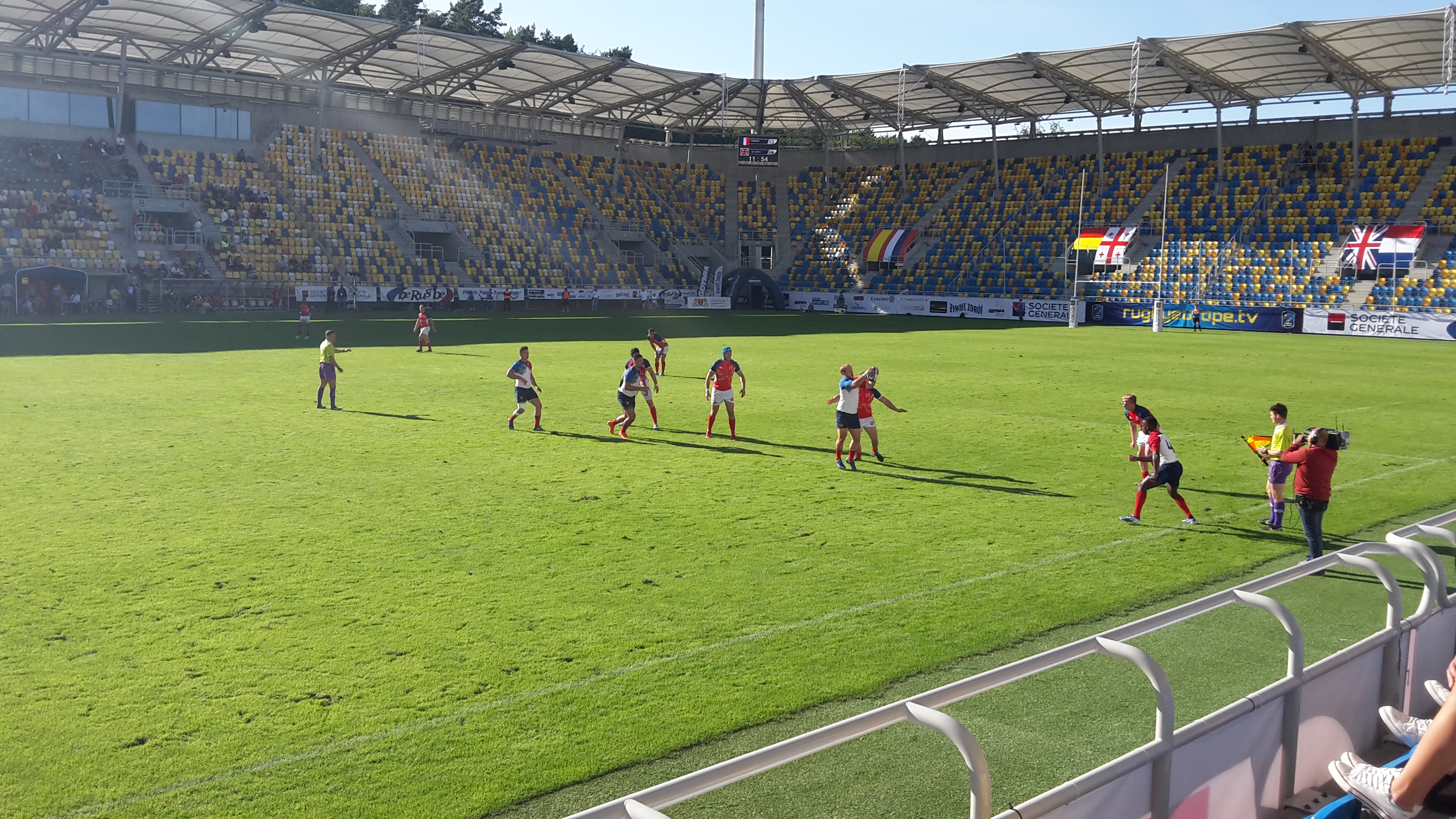 Rugby sevens tournament Gdynia Sevens 2016. Match France-GB Lions.